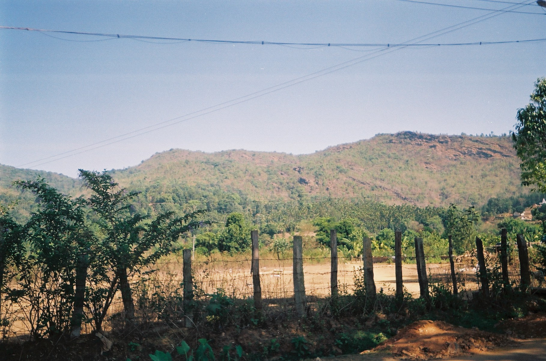 Hornad fields, Horanadu (Kannada: ಹೊರನಾಡು) is a hindu holy city located in Chickmagalur district, Karnataka, India.